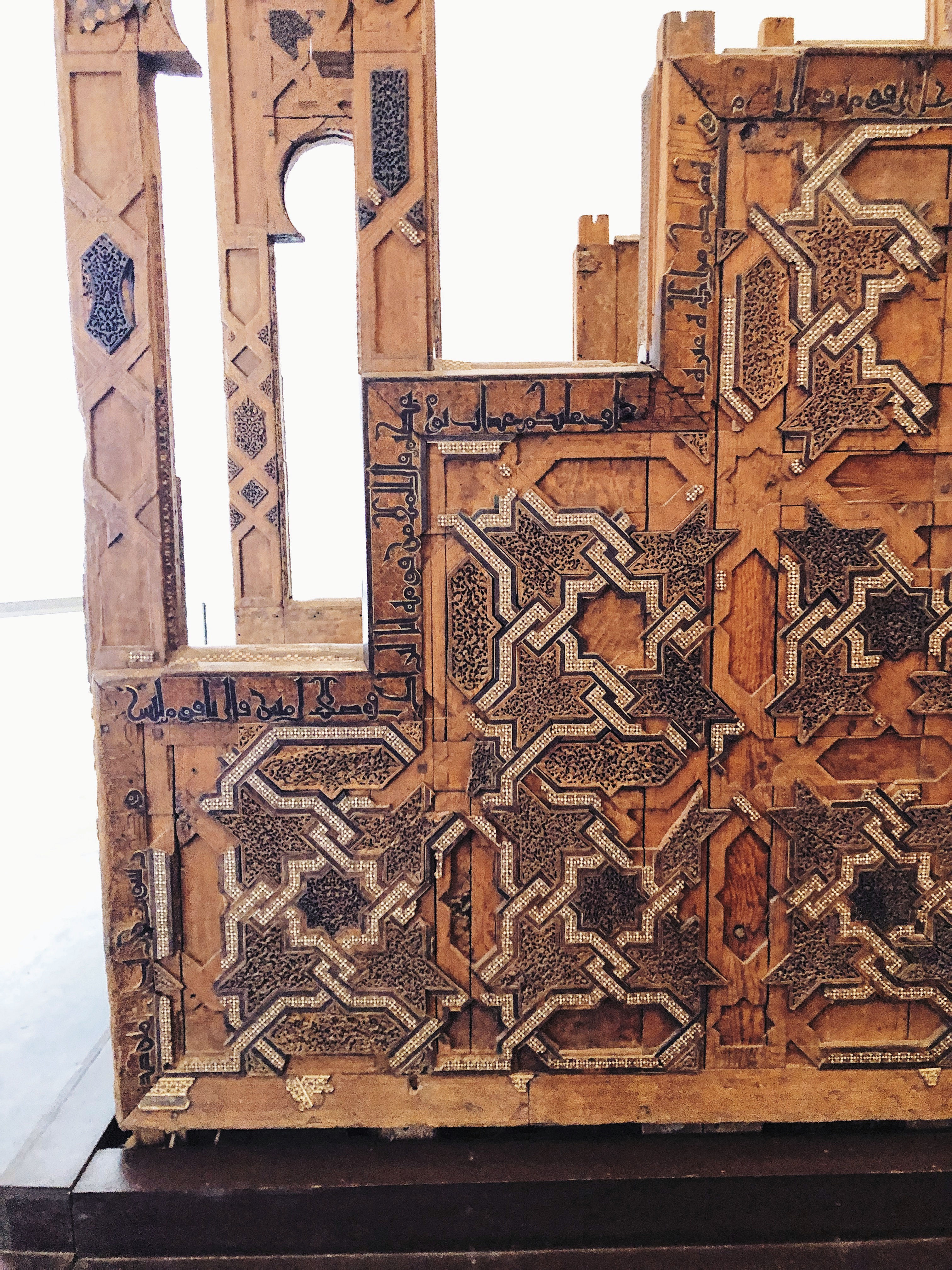 The Almoravid minbar of the Kutubiyya Mosque, produced in Cordoba in 1137 by commission of Amir Ali ibn Yusuf for the main mosque (Ben Youssef Mosque) in his capital of Marrakesh. (Note: This is just a retouched version of the picture uploaded by another user.)